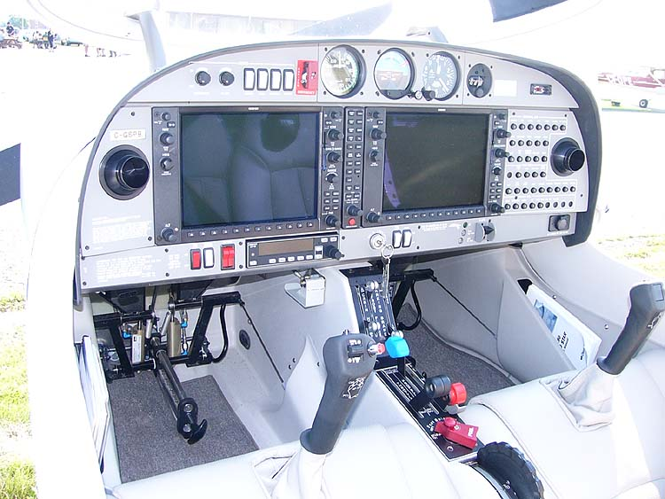 I took this photo of a Diamond Star G1000 equipped instrument panel at the Arnprior ON Fly-in 09 July 2006